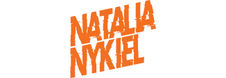 Logo of Natalia Nykiel